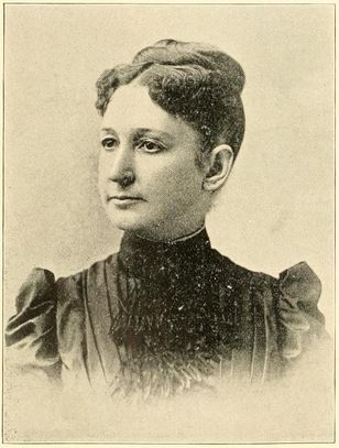 Katherine Hughes